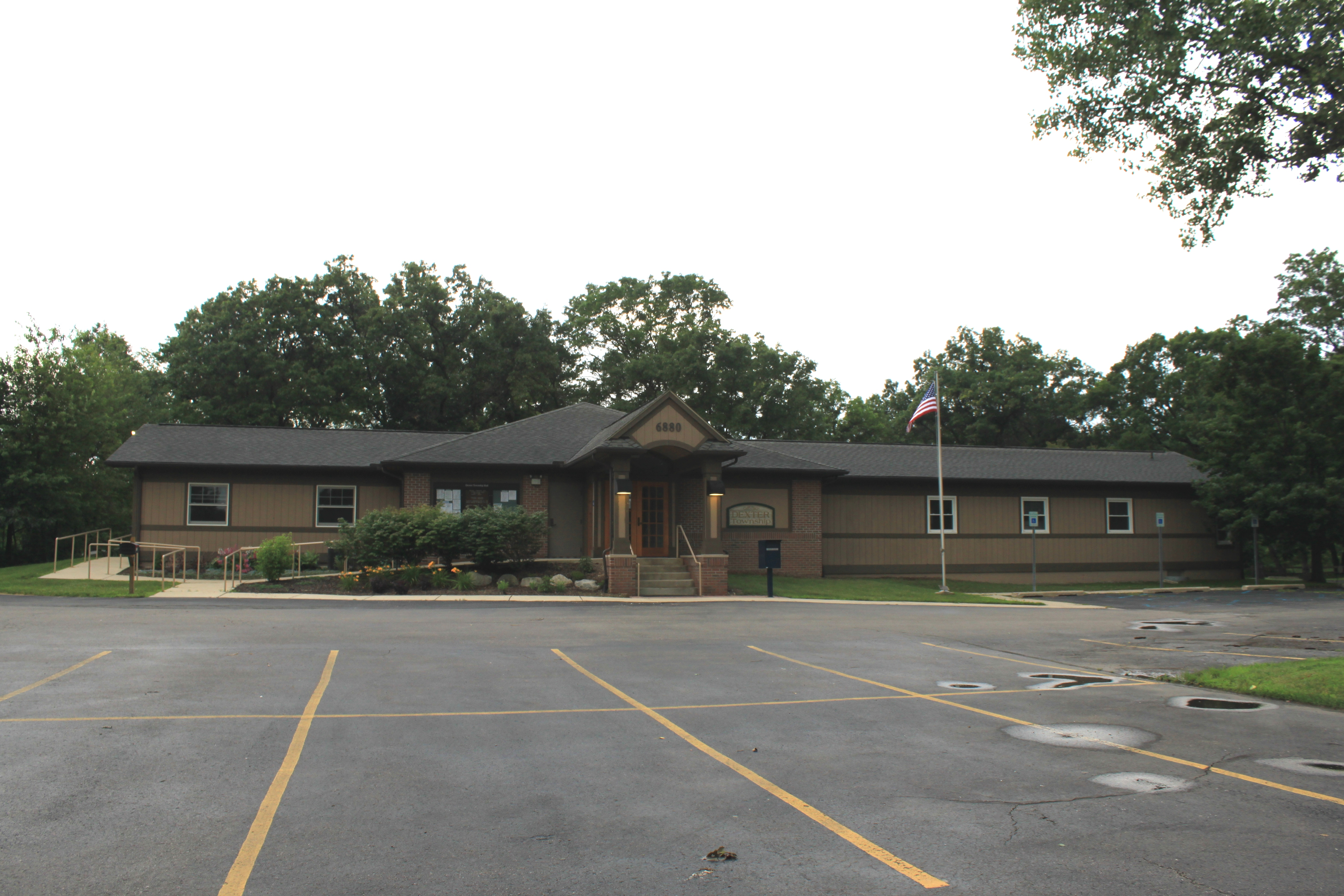 Dexter Township Hall, Michigan, 6880 Dexter-Pinckney Road